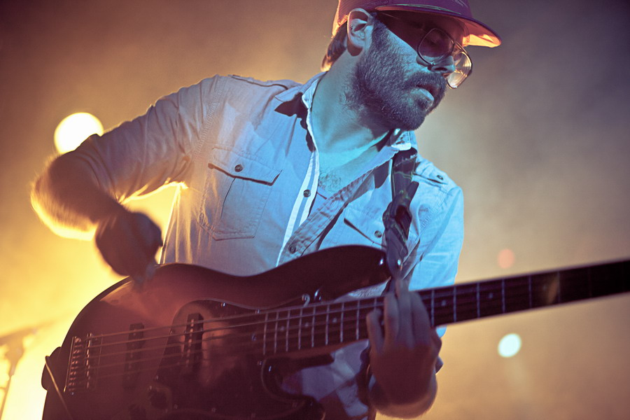 Chris King from This Will Destroy You Concert in Saint Petersburg in the Arctica club.